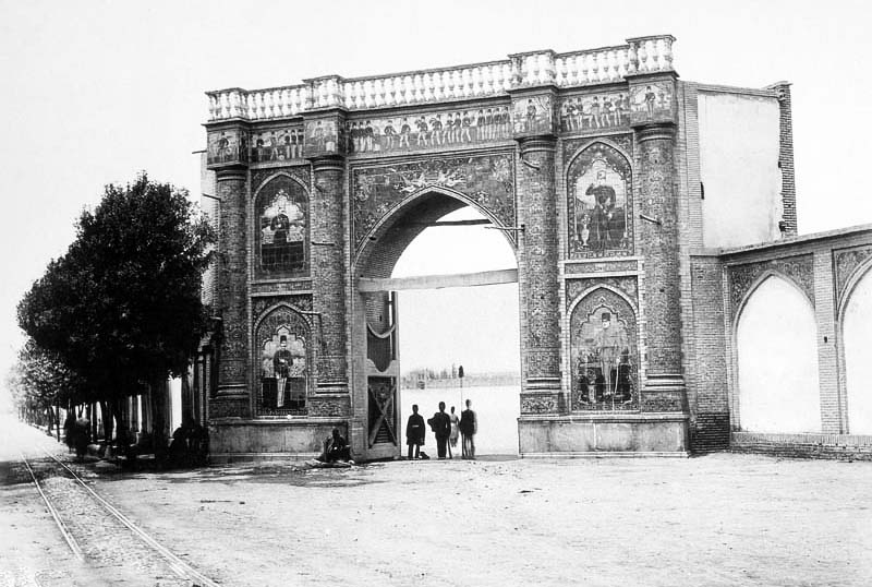 Meidan Mashgh gate